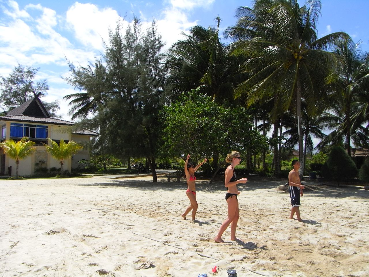 Bintan Island volleyball